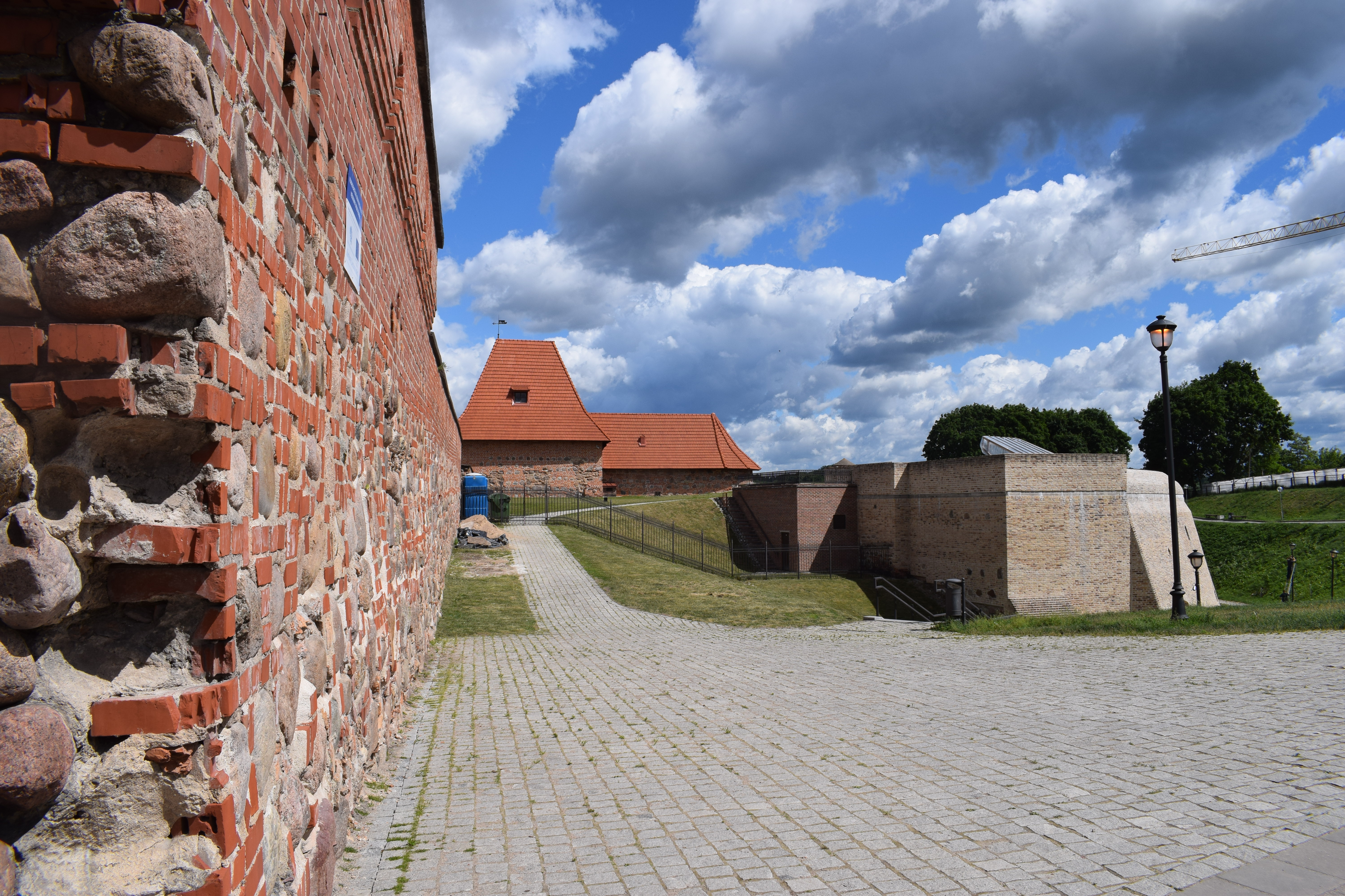 Vilnius 001